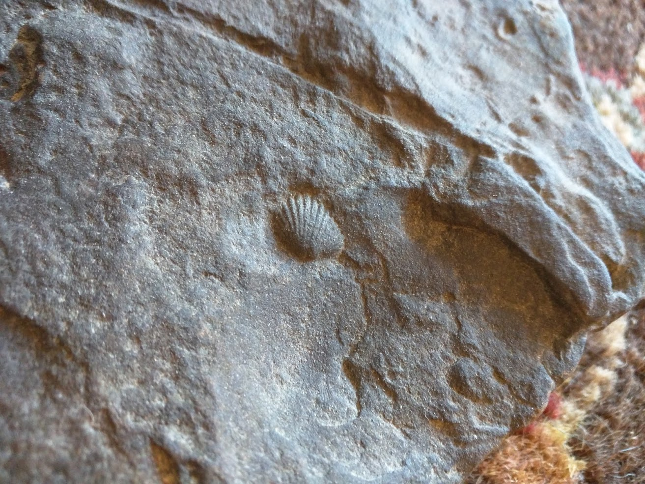 Fossil in a chunk of Chagrin Shale